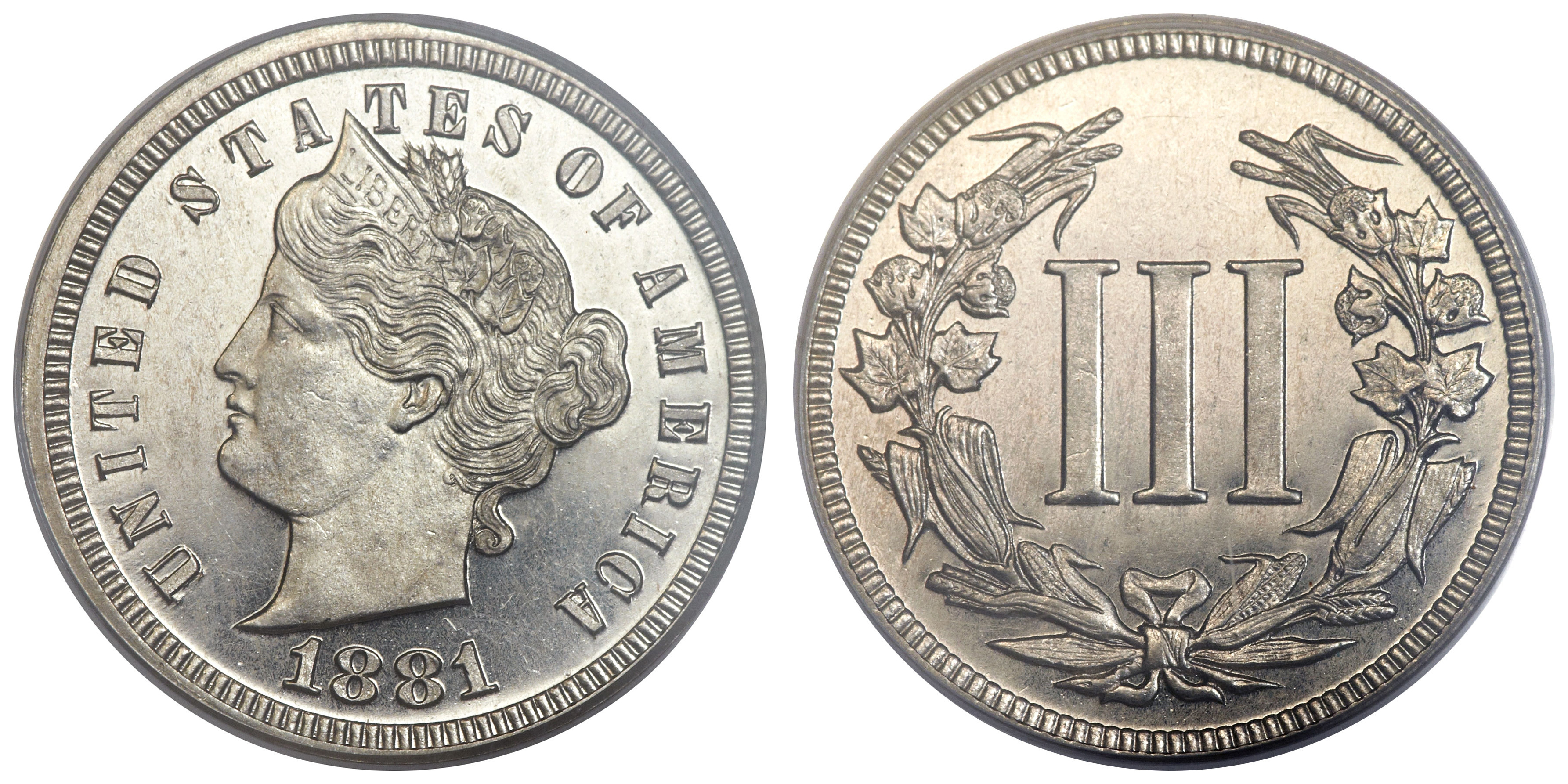 1881 3C Liberty Head Three Cents (Judd-1668, Pollock-1869) (1216-6767)